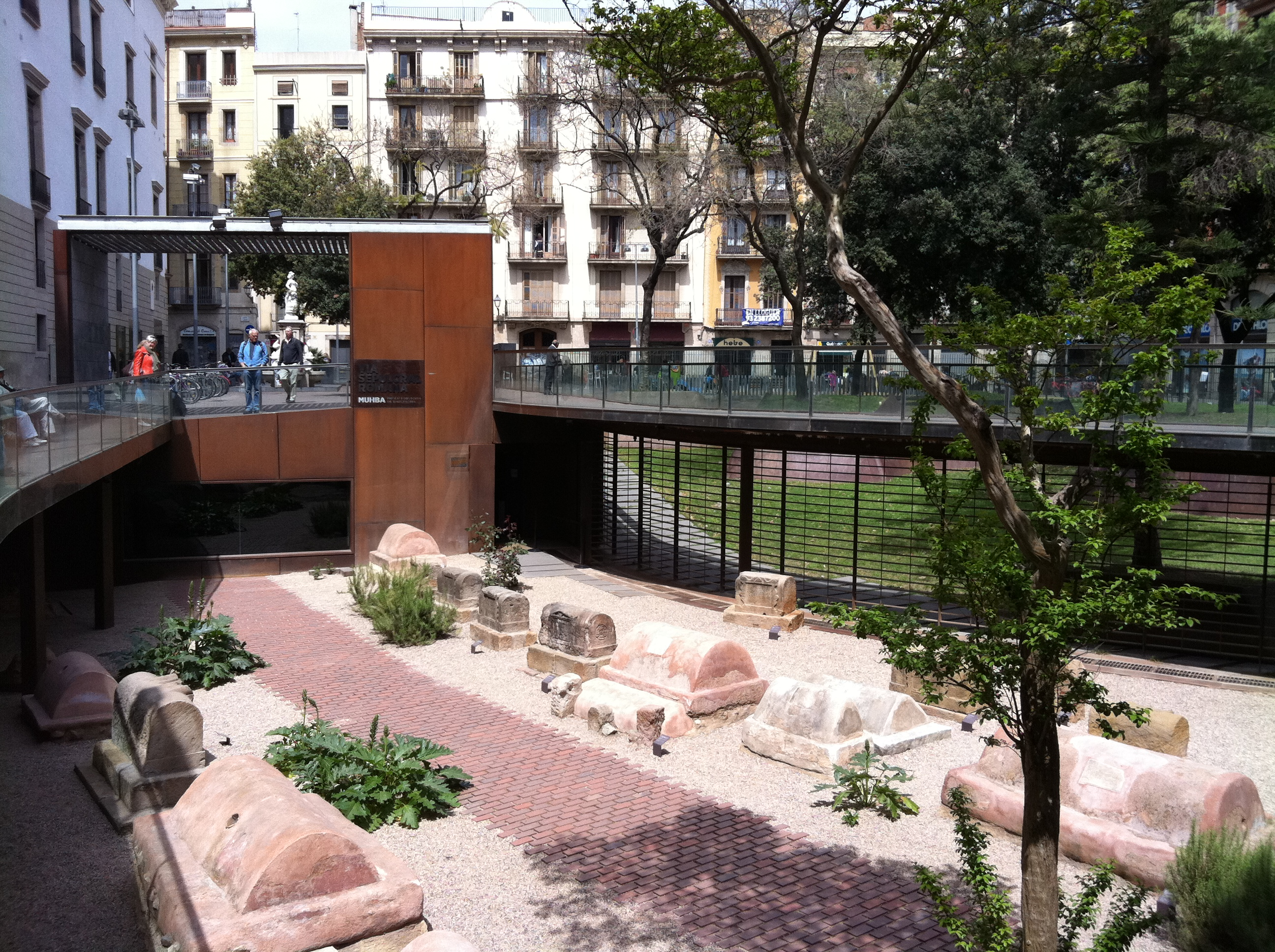 Barcino ancient Roman burial route at Plaça Villa de Madrid